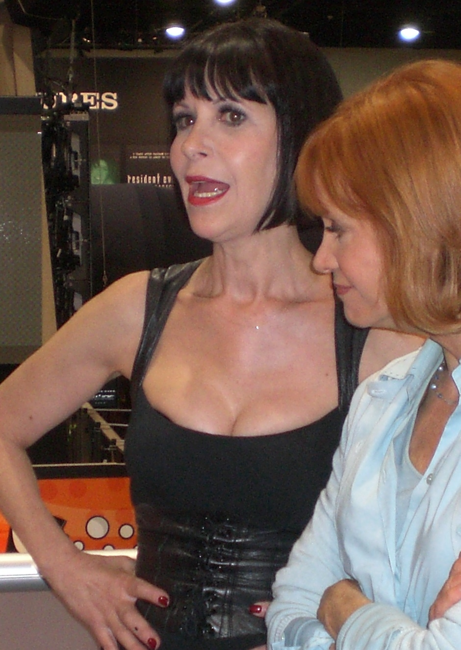 American singer and actress Ellen Greene.